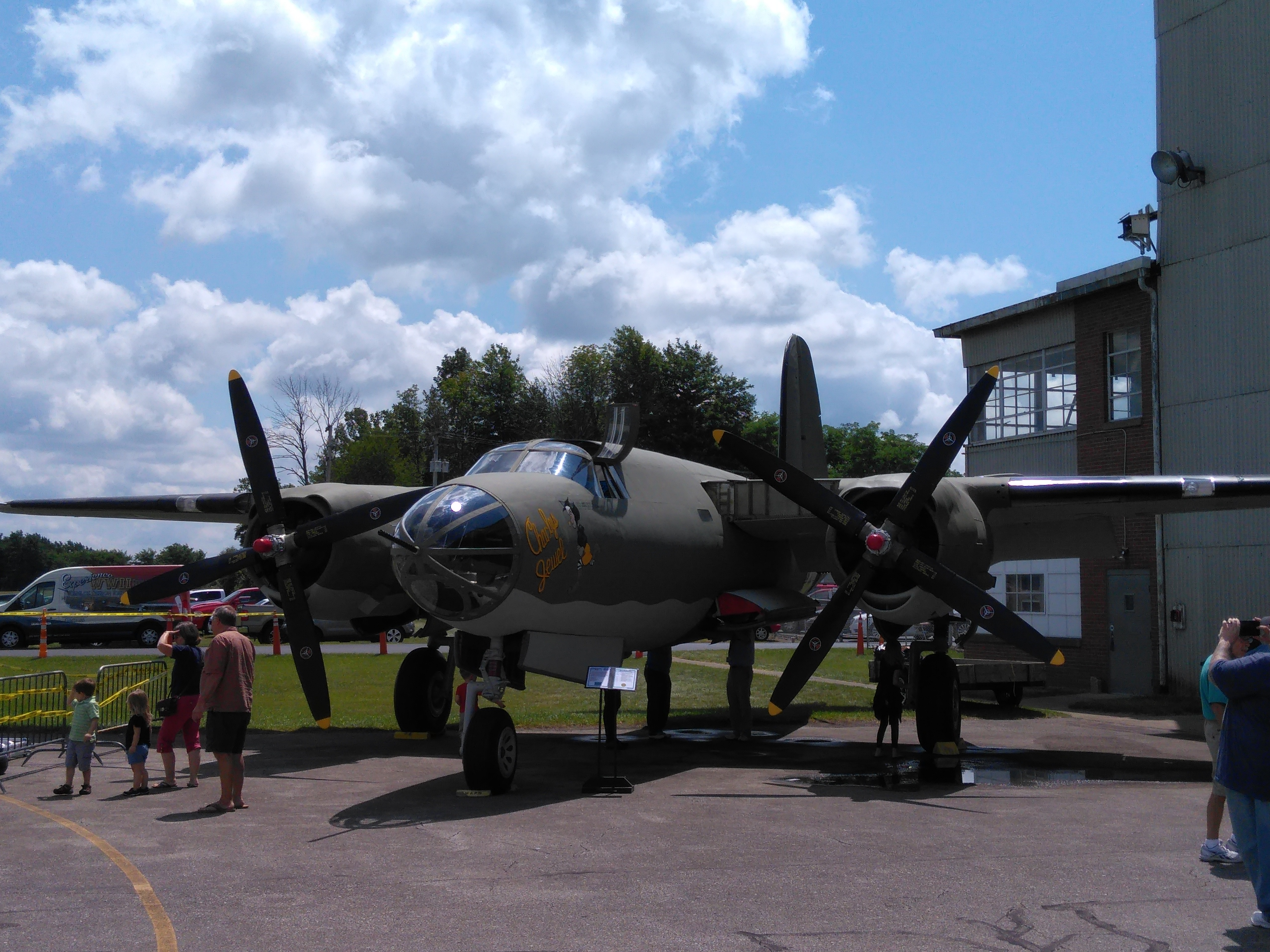 B-26B s/n 40-1459 "Charly's Jewel" on display at MAPS Air Museum in North Canton, Ohio